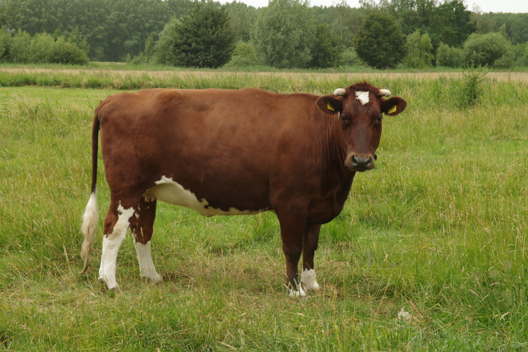 The cow is from the race Brandrood